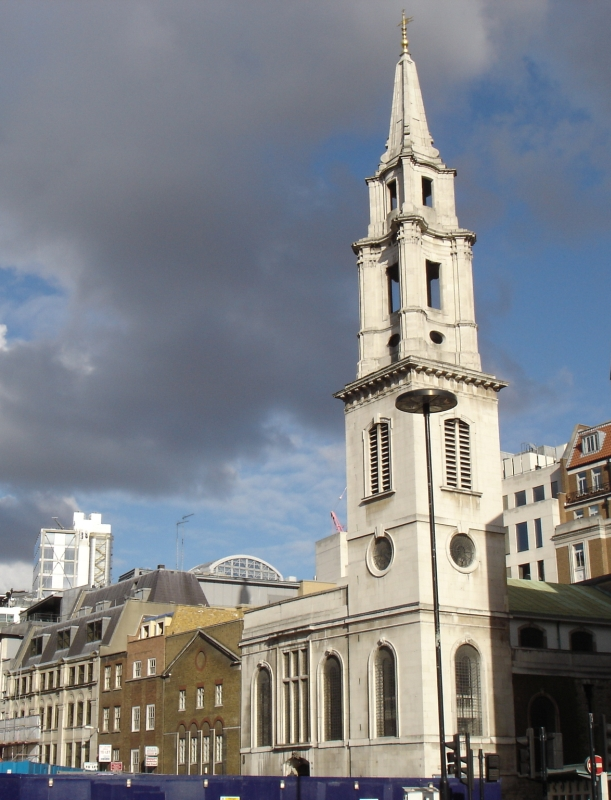 St Vedast Church, Foster Lane, London